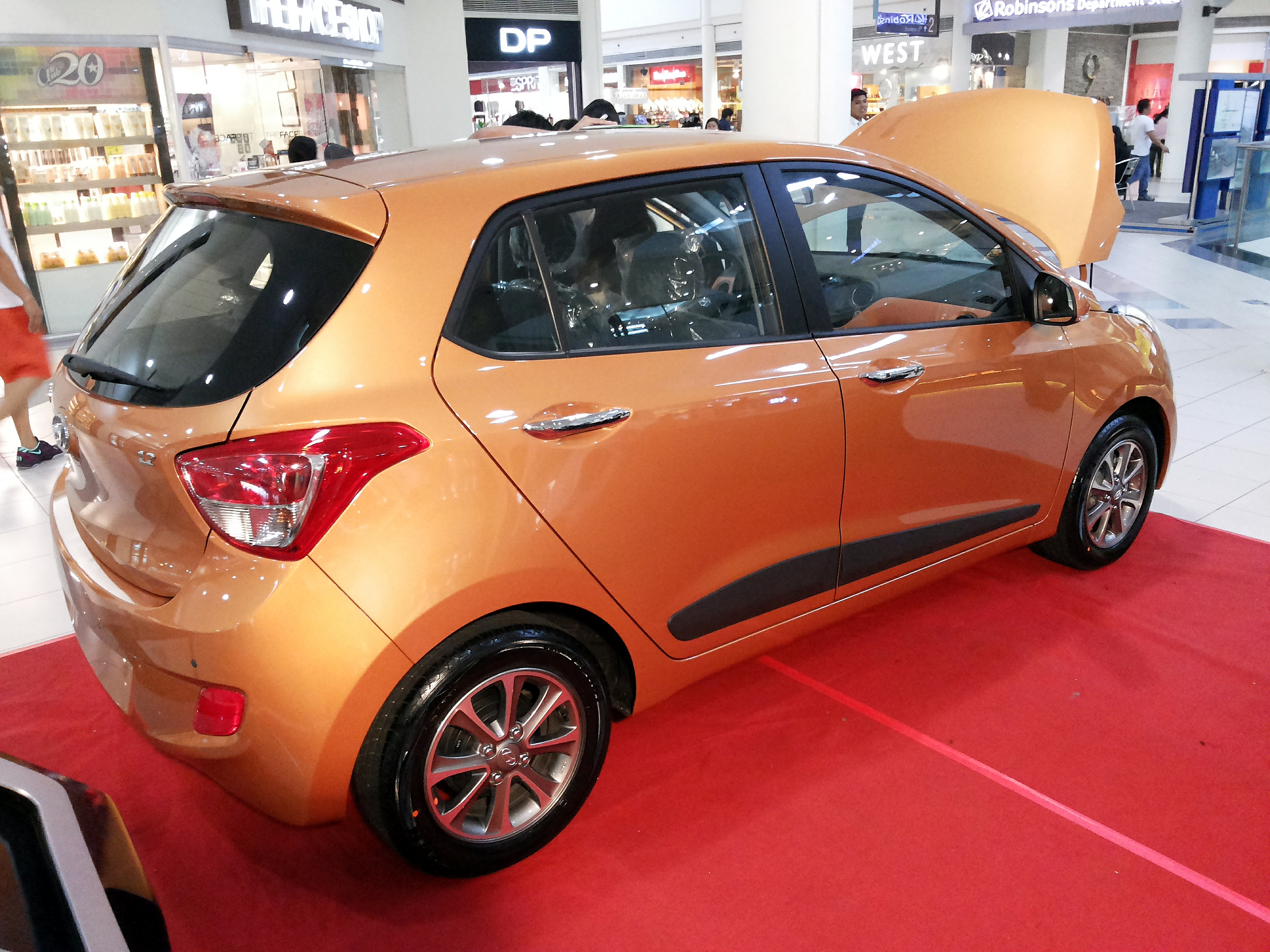 2014 Hyundai Grand i10 1.2 Automatic (Philippine model). Taken at Robinsons Galleria, Quezon City, Philippines.